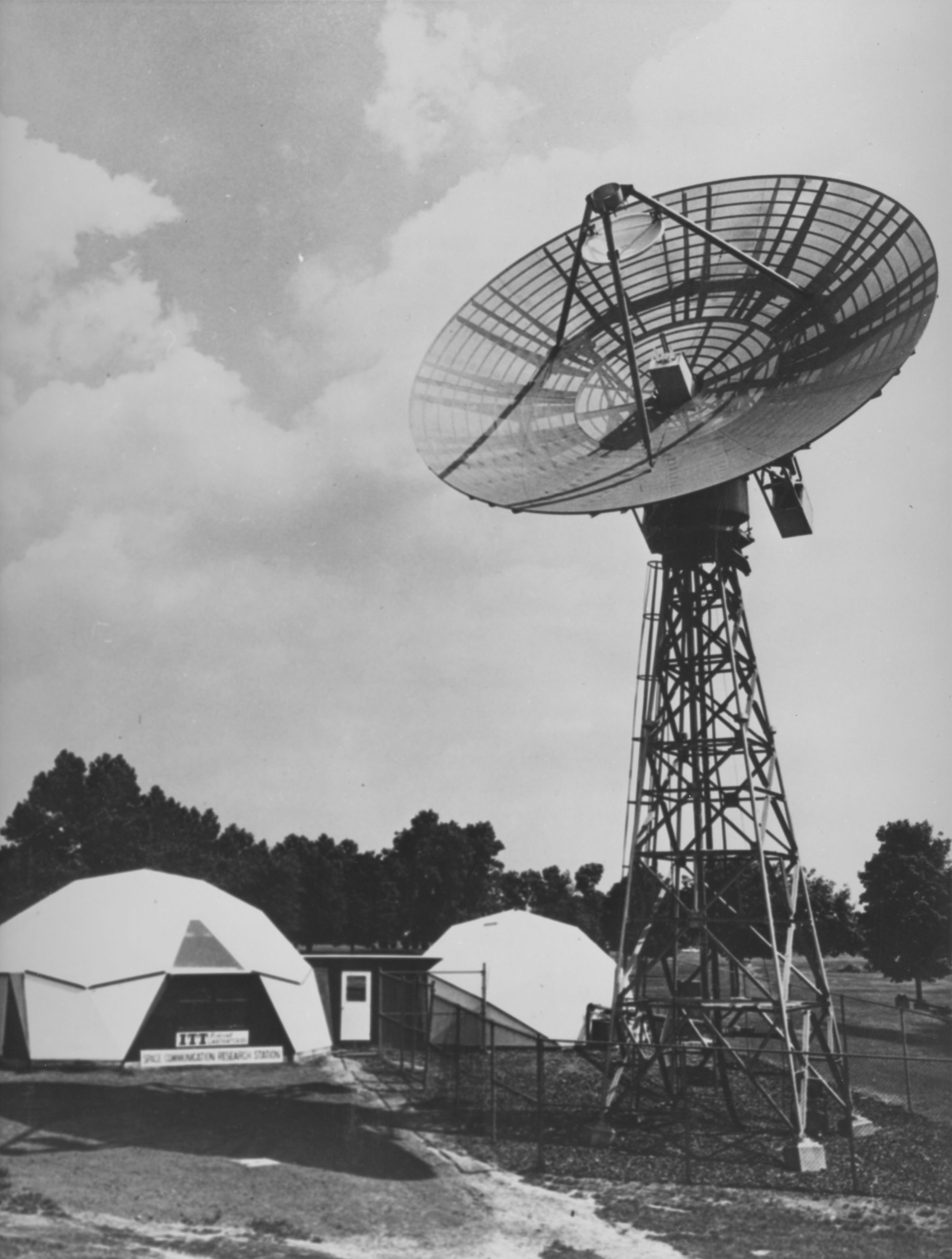 A specially designed 30-foot parabolic antenna developed by International Telephone and Telegraph Federal Laboratories that served as a Project Relay space communication terminal and was located in the United States. The antenna was part of the ground communication terminal of a United States to Brazil communication link via the Relay satellite launched by a NASA Delta rocket on December 13, 1962.